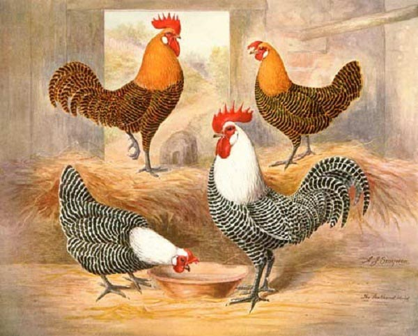 A silver and golden Campine hen